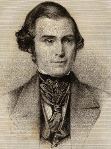 Engraving of Orson Pratt